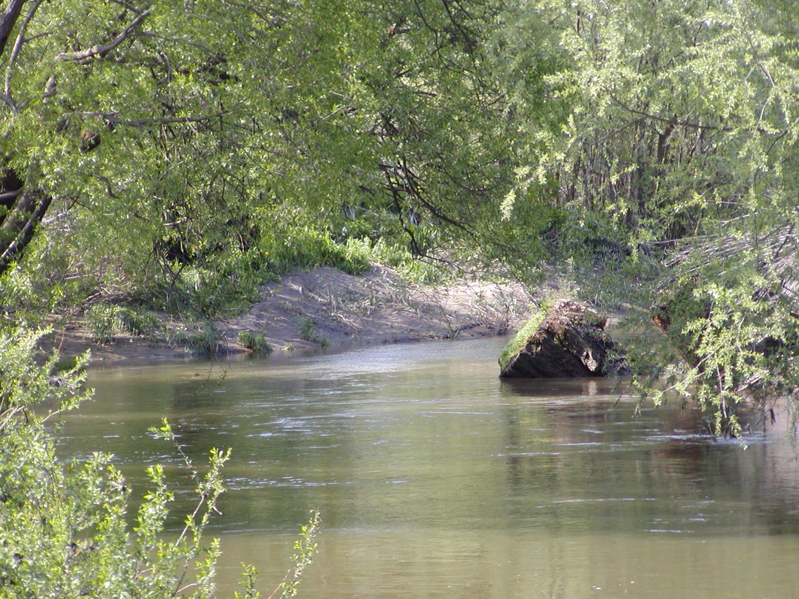 Dravinja River at Koritno village